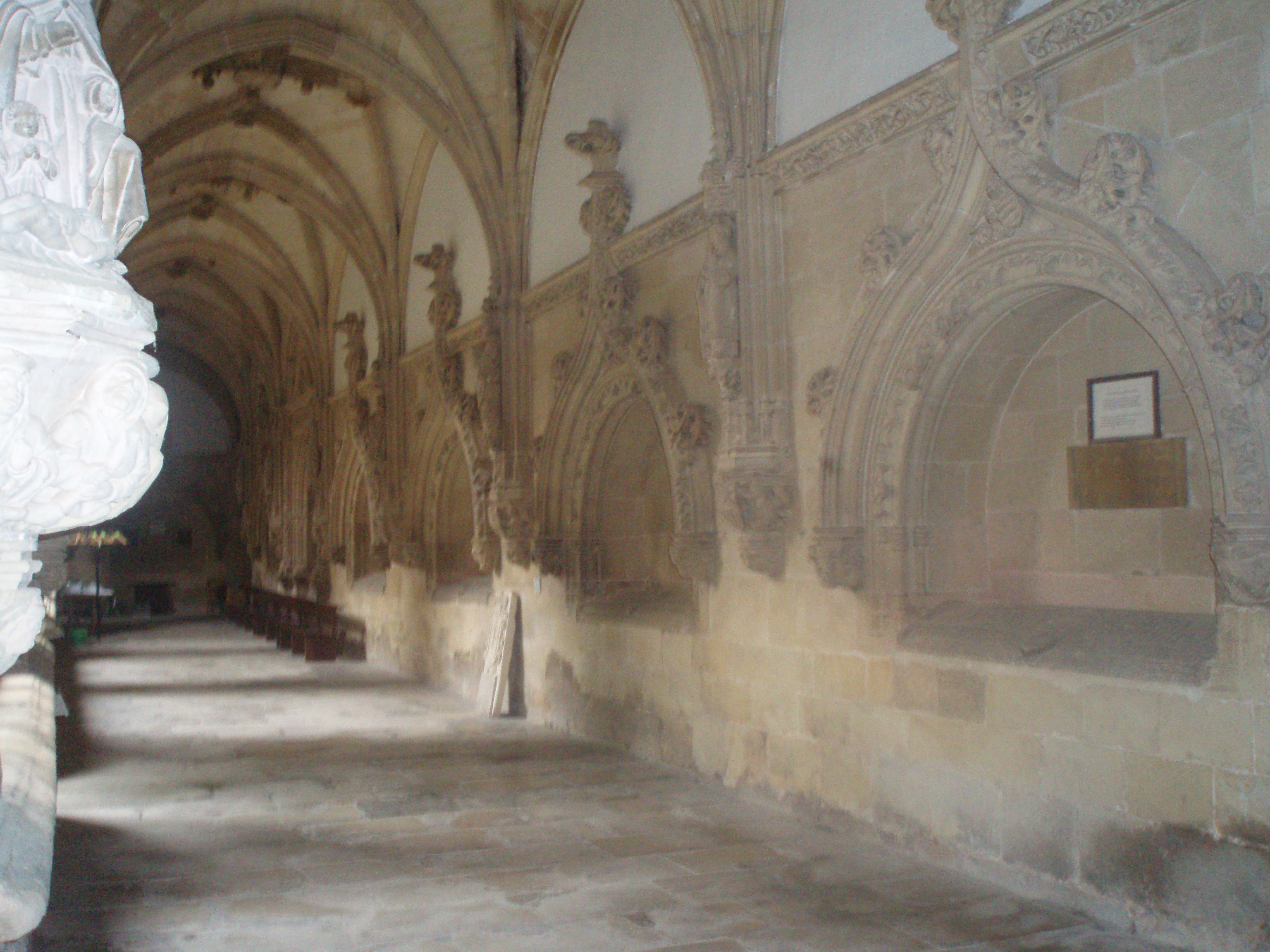 Monastery of Oña, in province of Burgos. (Spain).